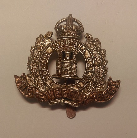 Photo of Suffolk Regiment Cap Badge from personal collection